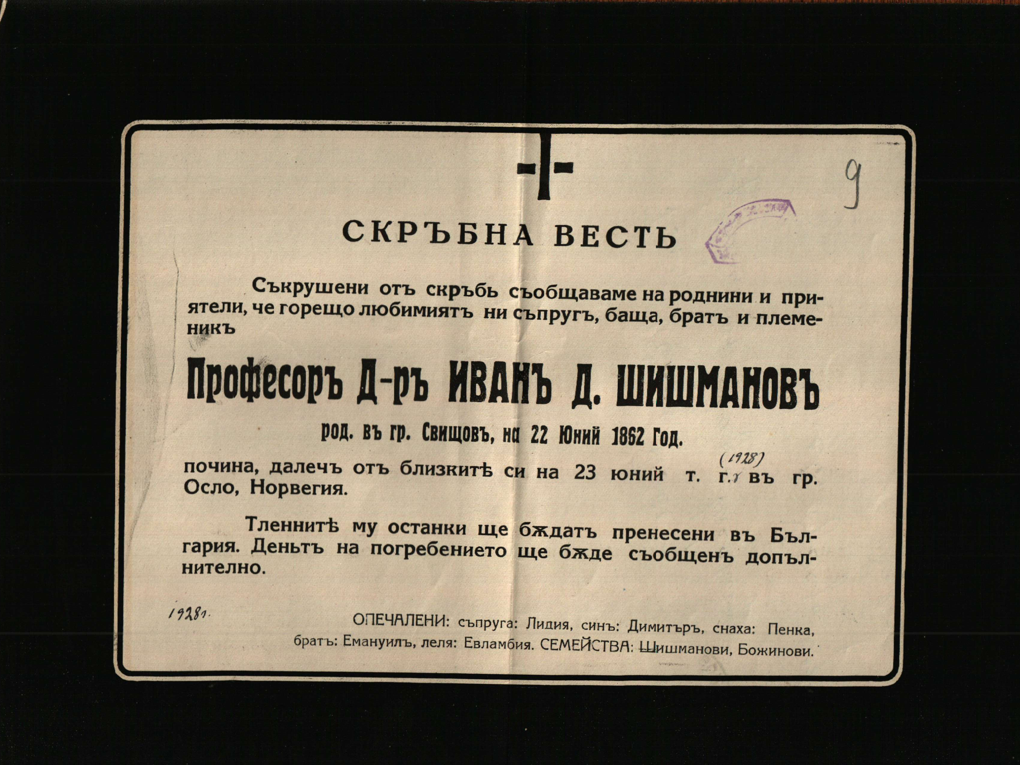 Ivan Shishmanov Obuituary